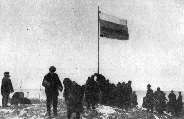 Planting the Russian flag at Berg Cape (80°1'31" N 99°21'39" E), on October Revolution Island, Severnaya Zemlya by the expedition team of Boris Vilkitsky. Back then it was believed that Severnaya Zemlya was one island.